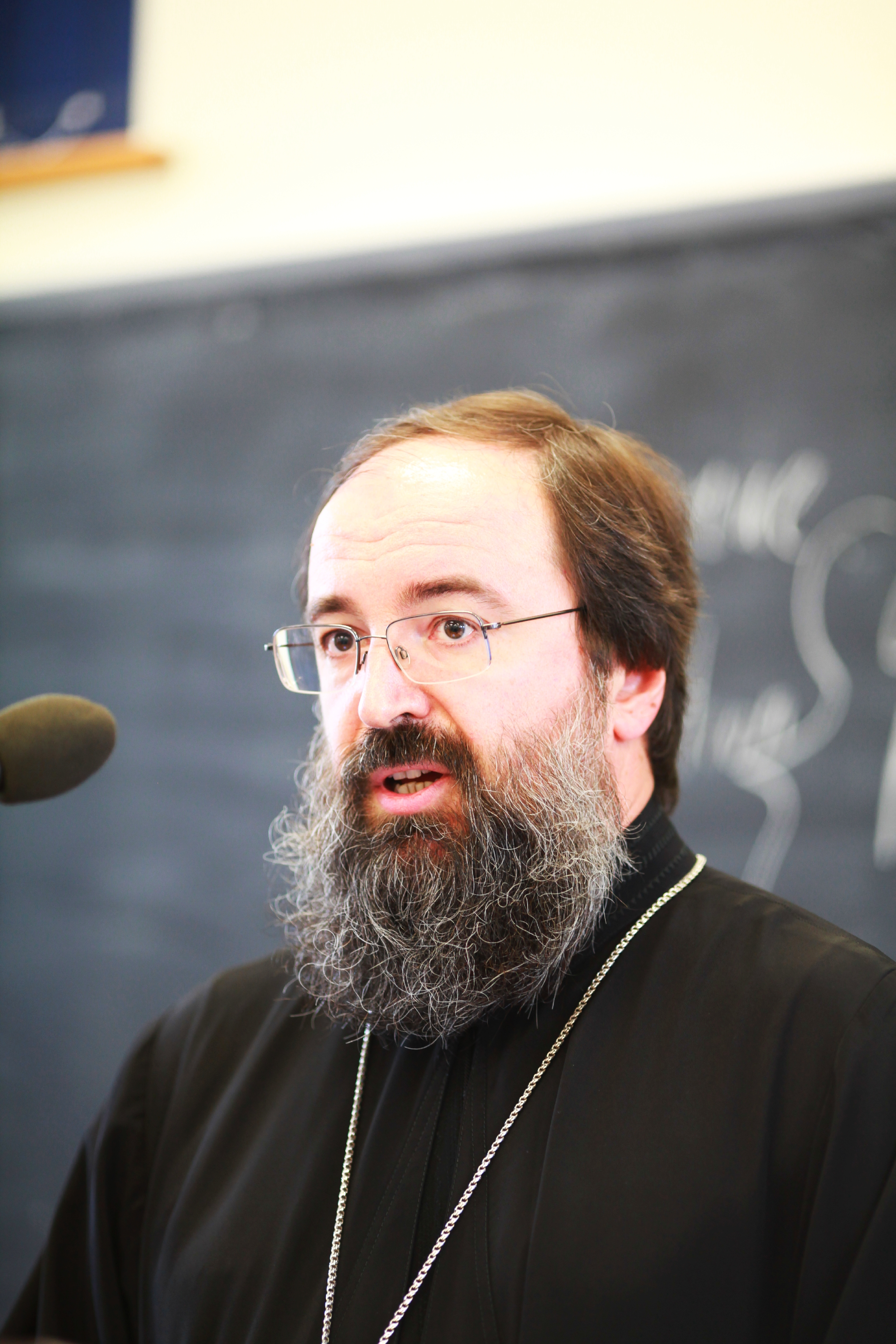 Sourozh_Ann_Conf_04_06_2011_005